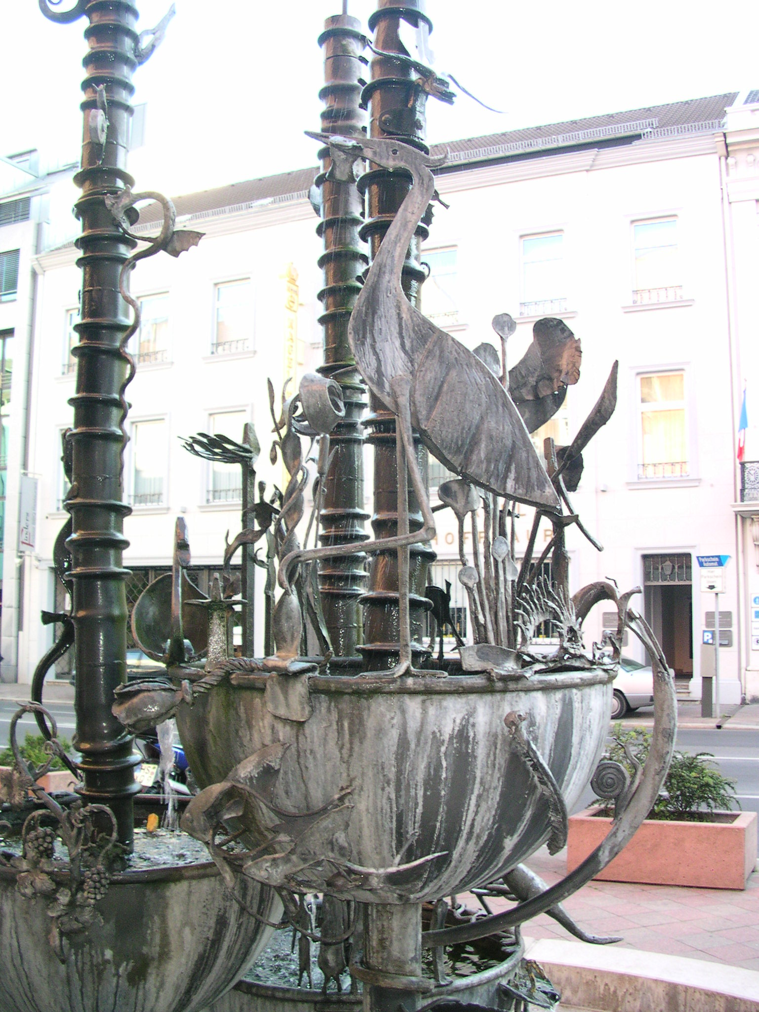 “Fountain of peace”, Aachen 1991